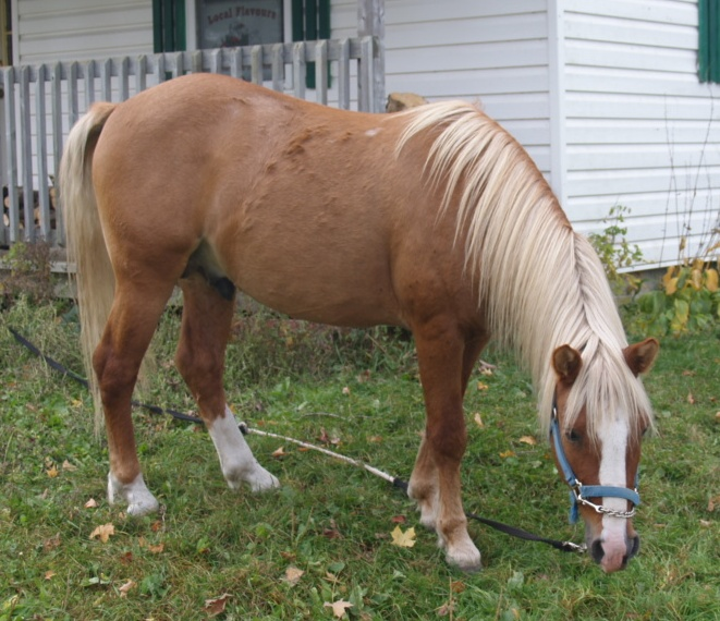 Lac La Croix Indian Pony stallion - Mooke (Ojibway for - he comes forth)